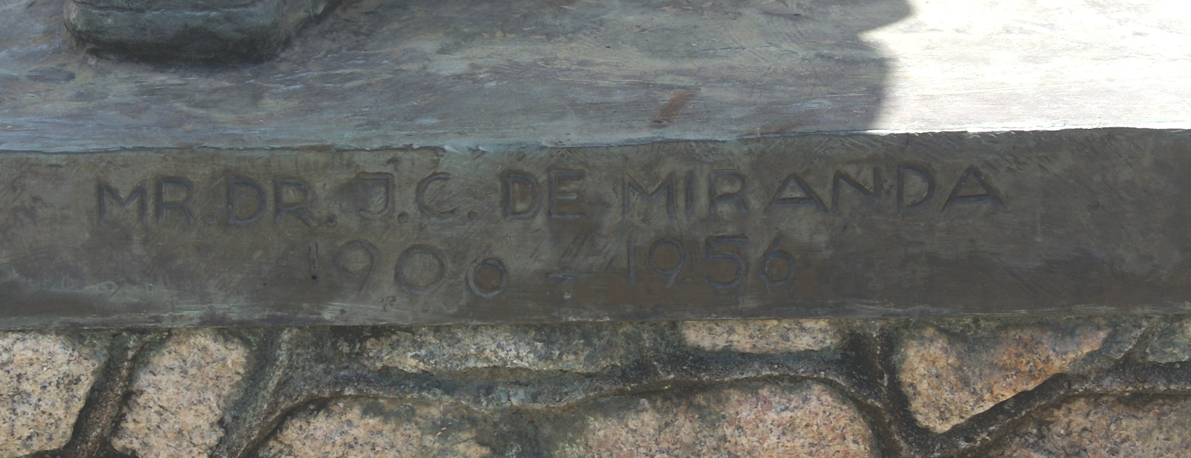 Statue of Mr. Dr. Julius Caesar de Miranda, Mr. Dr. J.C. de Mirandastraat, Paramaribo, Surinam. By Leo Braat, 1961. Detail: inscription.